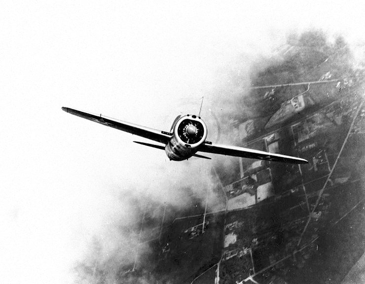 Brewster XF2A-1 fighter. In flight during tests. Caption read: Photo # 80-G-3807 Brewster XF2A-1 fighter, in flight, circa 1938-39